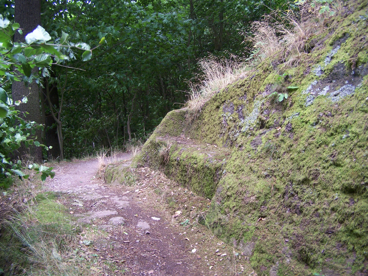 A original seat place from the beginning - found near Mönch und Nonne in the park.